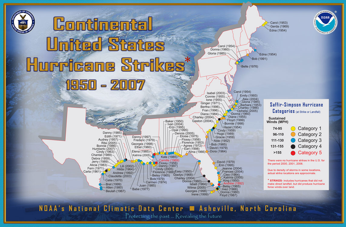 Continental United States Hurricane Strikes 1950-2007